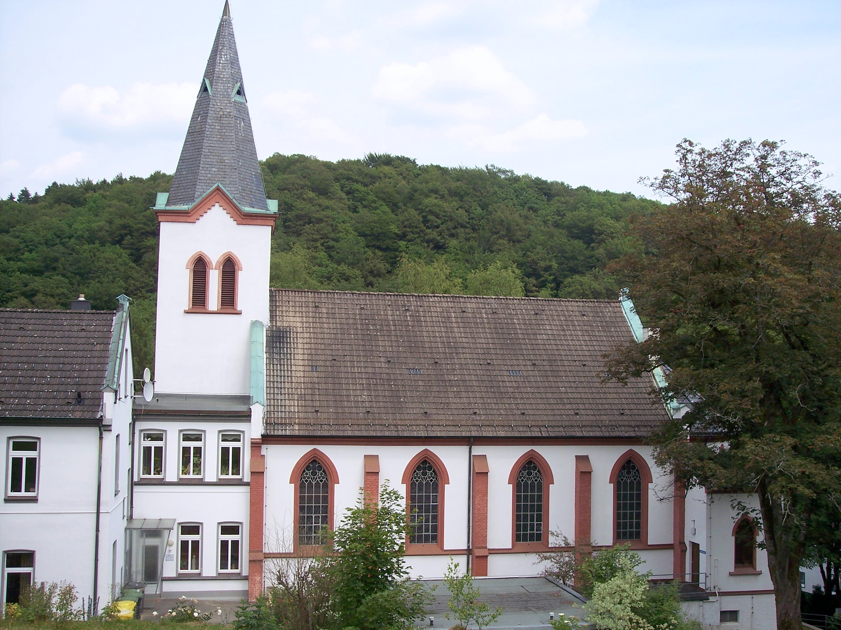 Lüdenscheid-Oberrahmede, protestant church